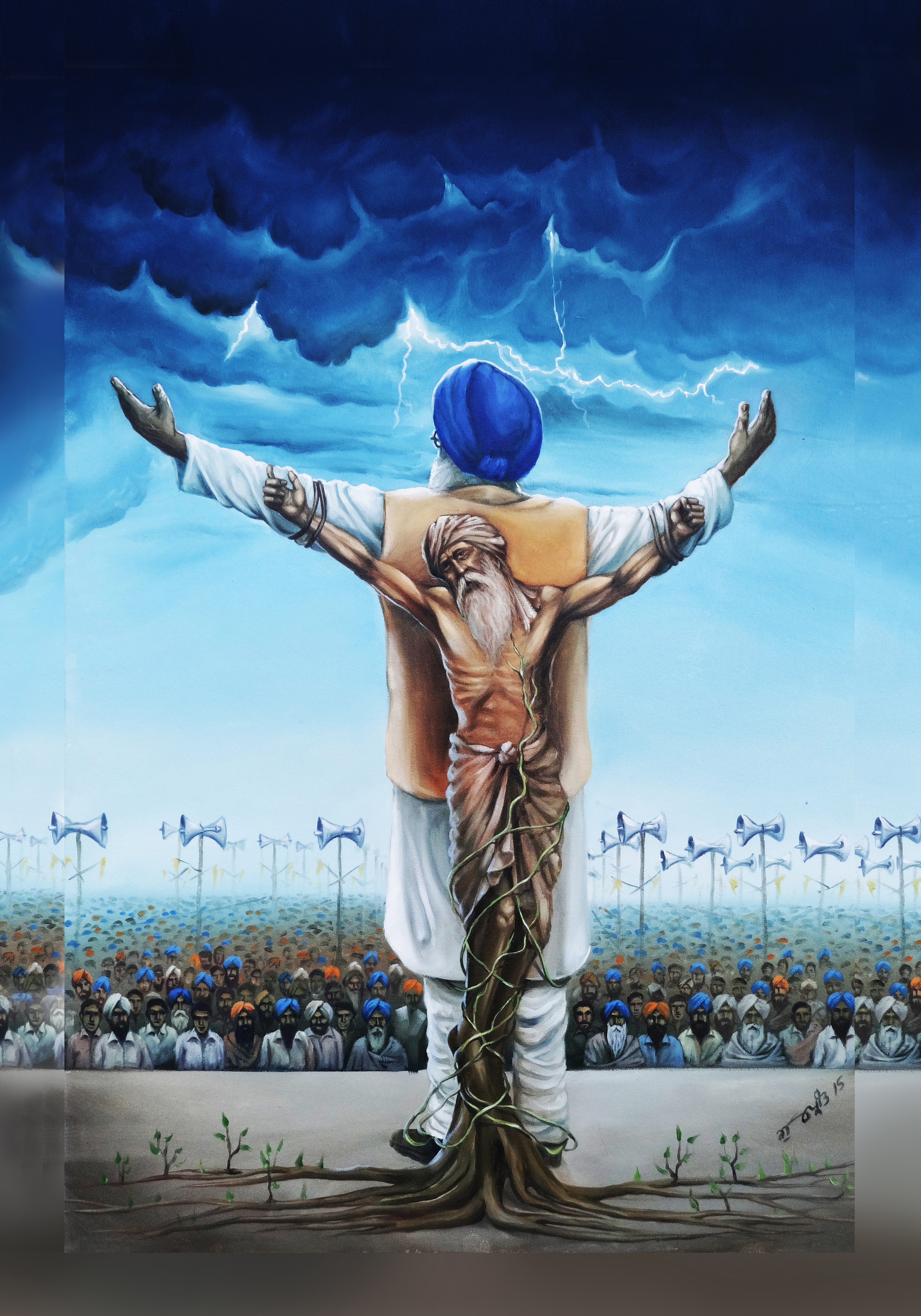 This is very famous work of gurpreet artist bathinda. This is a satire on the government's policies of that time.